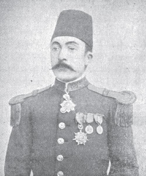 Hüseyin Hüsnü Pasha (1850 - 1926) Ottoman general and statesman